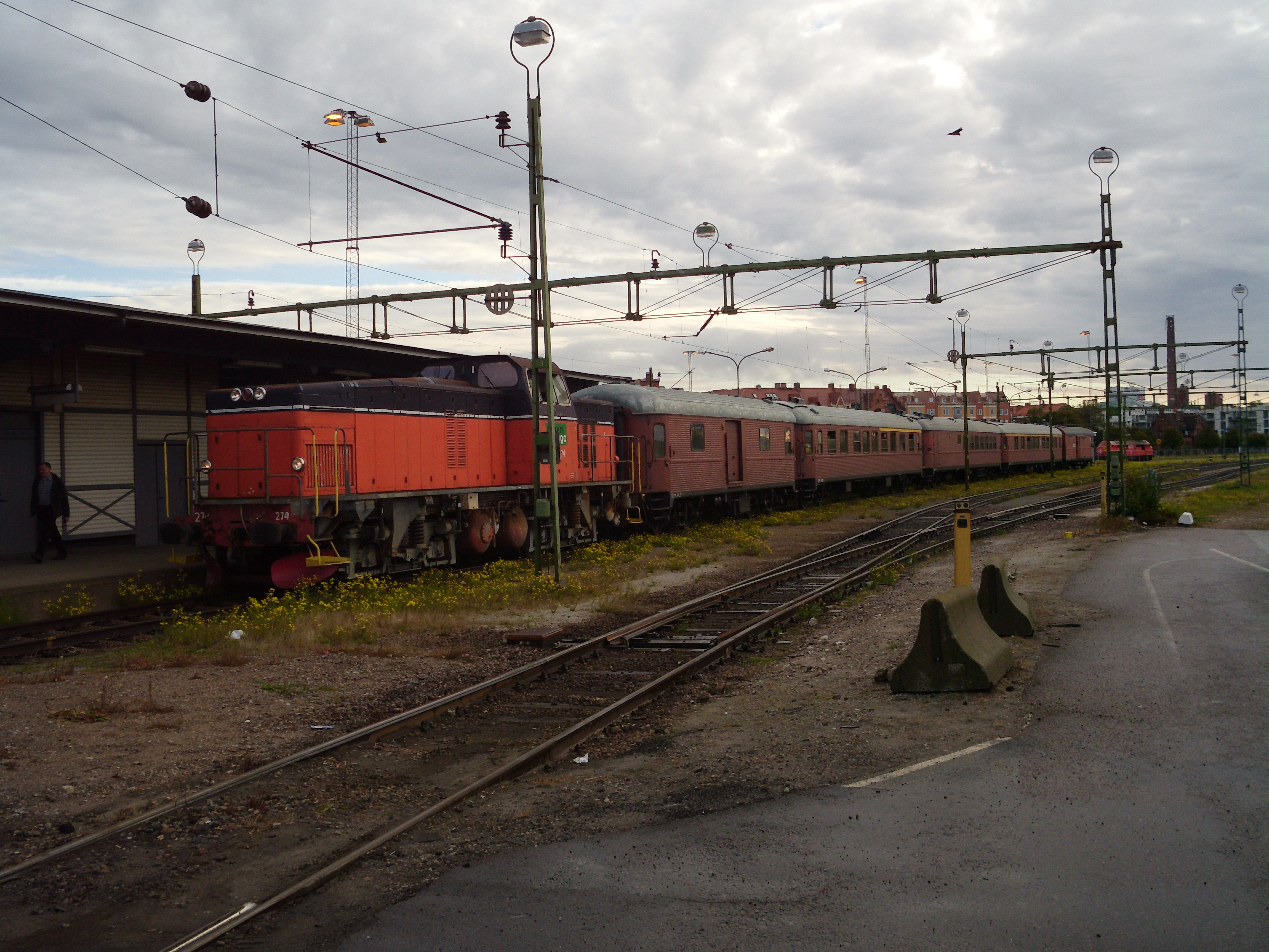 Tourist train at Trelleborg F station in the harbour.